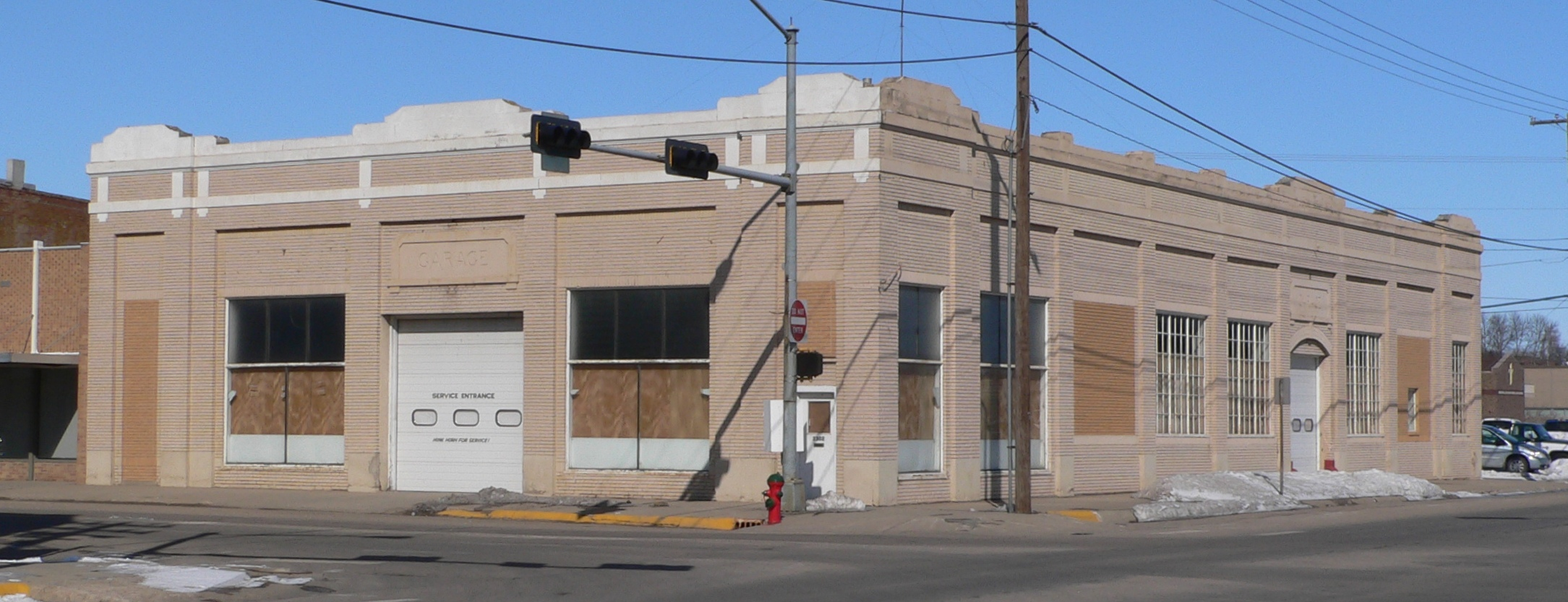 Lincoln Highway Garage at 2304 13th Street in Columbus, Nebraska; seen from the southeast. The garage is a contributing property to the Columbus Commercial Historic District, which is listed in the National Register of Historic Places. The modern broad-front building was constructed in 1915.